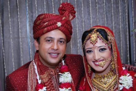 Riaz wedding Tina 2007